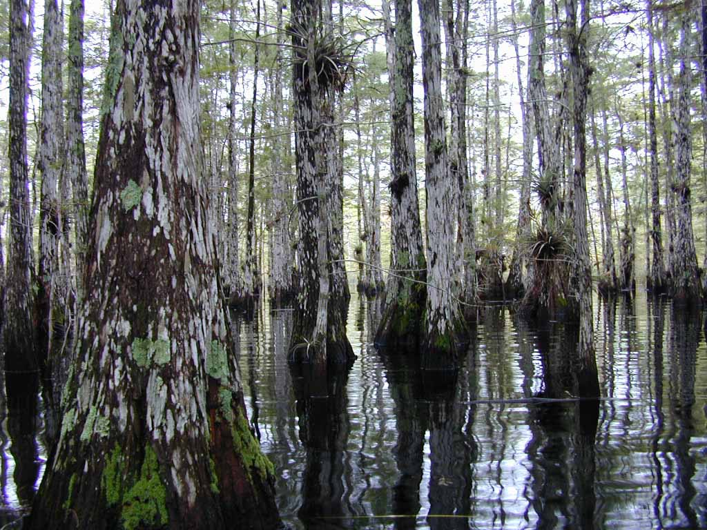 Florida Cypress Dome in the Big Cypress National Preserve. This image is from the Center for Wetlands, University of Florida, photo archives Mtbrown8 (talk) 10:44, 6 June 2010 (UTC)